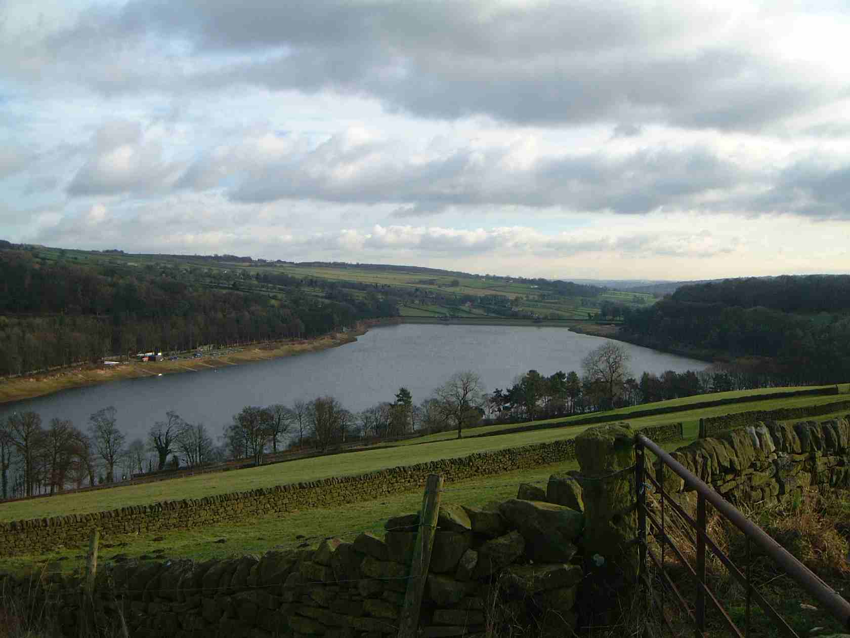 Personal photograph taken on January 17th 2006 by Mick Knapton